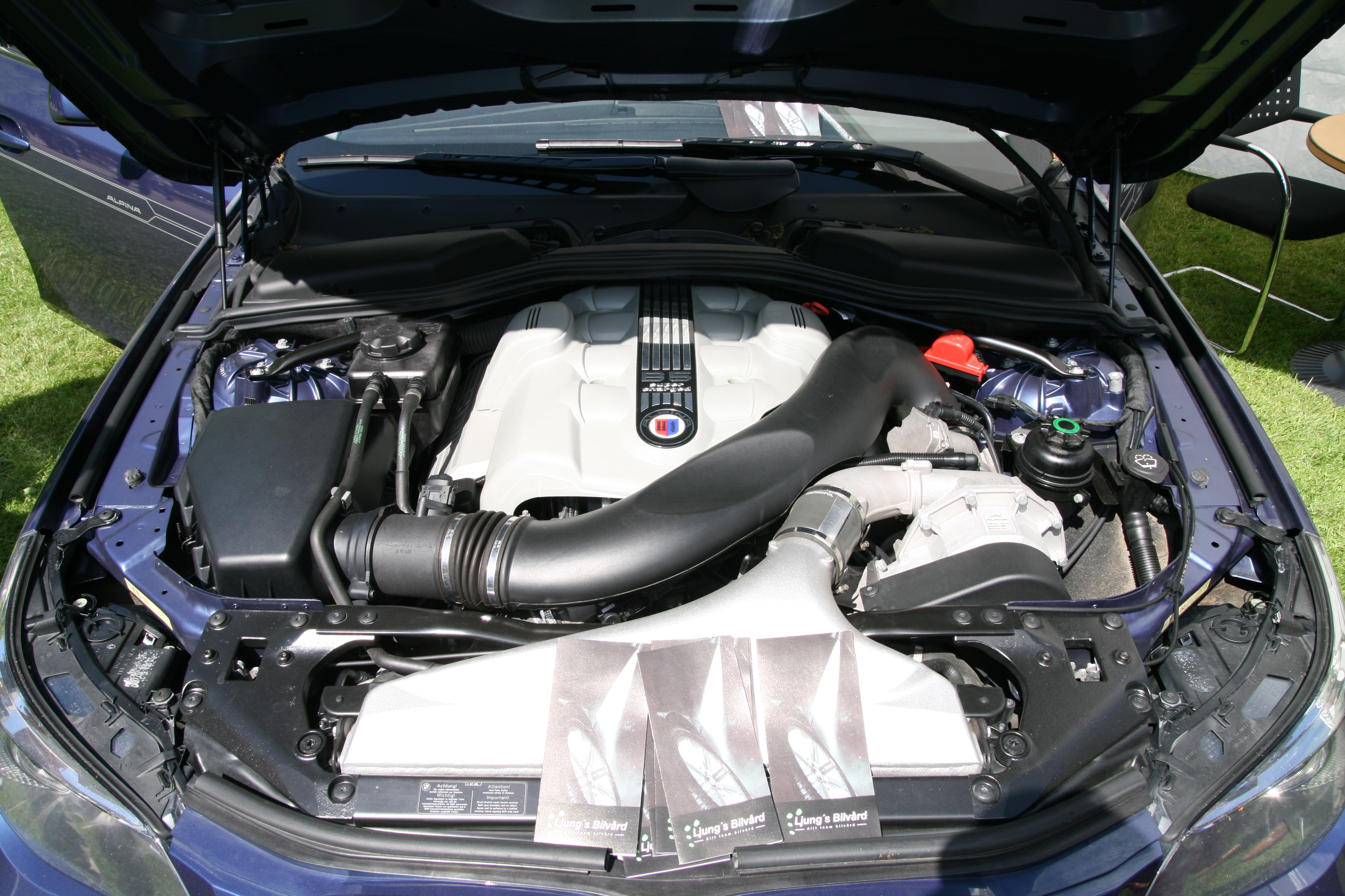 The engine bay of a 2005 BMW Alpina B5 (E60) parked at the Sofiero Classic car show at Sofiero castle in Helsingborg, Sweden.